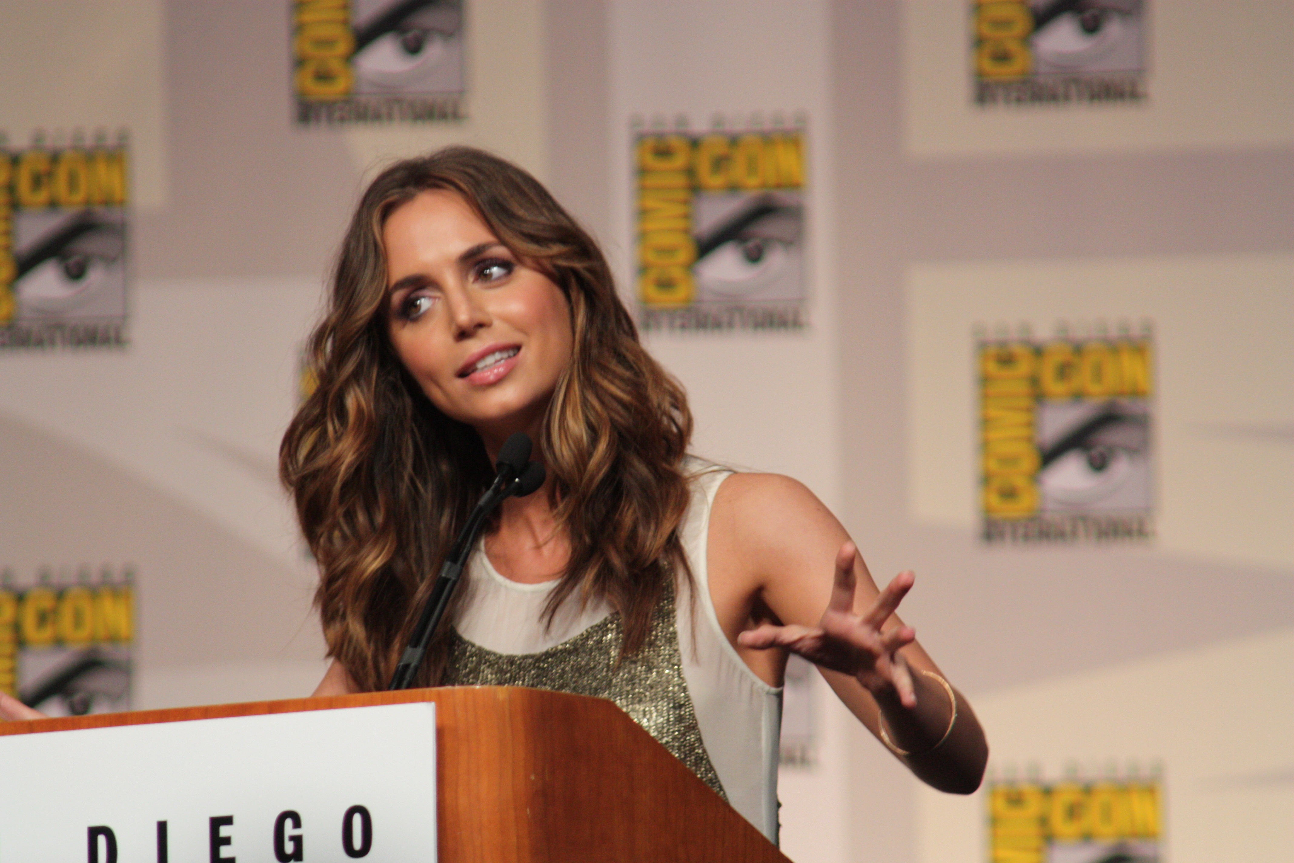 Actress Eliza Dushku of Dollhouse with a claw hand!